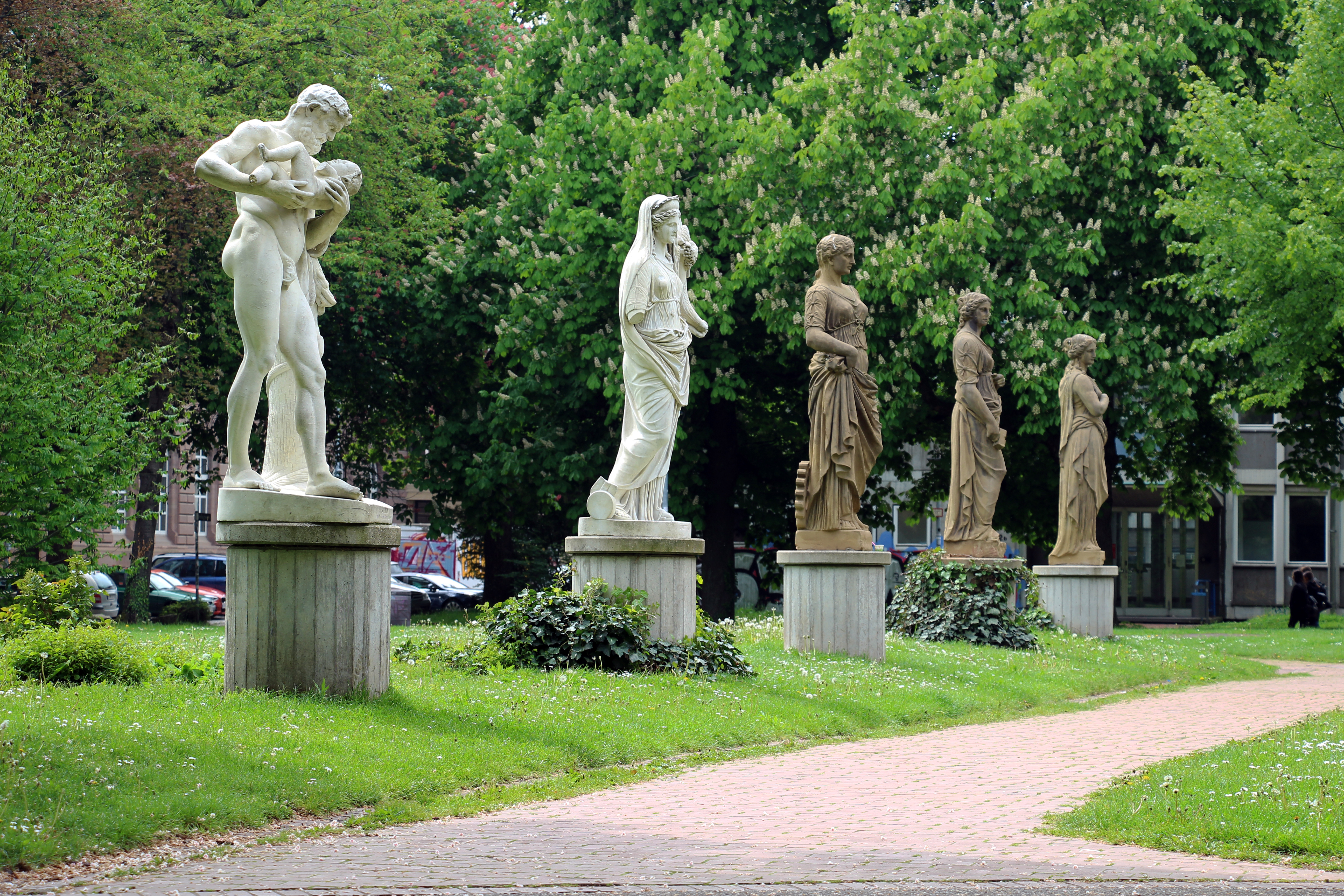 Keplerstraße Municipal garden surrounded by the University of Stuttgart